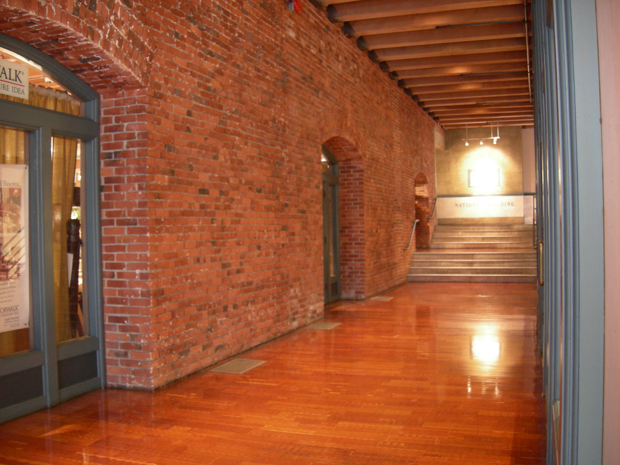 Interior, The National Building, 1006–1024 Western Ave., Seattle, Seattle, Washington, USA. Listed on the National Register of Historic Places, ID #82004244.